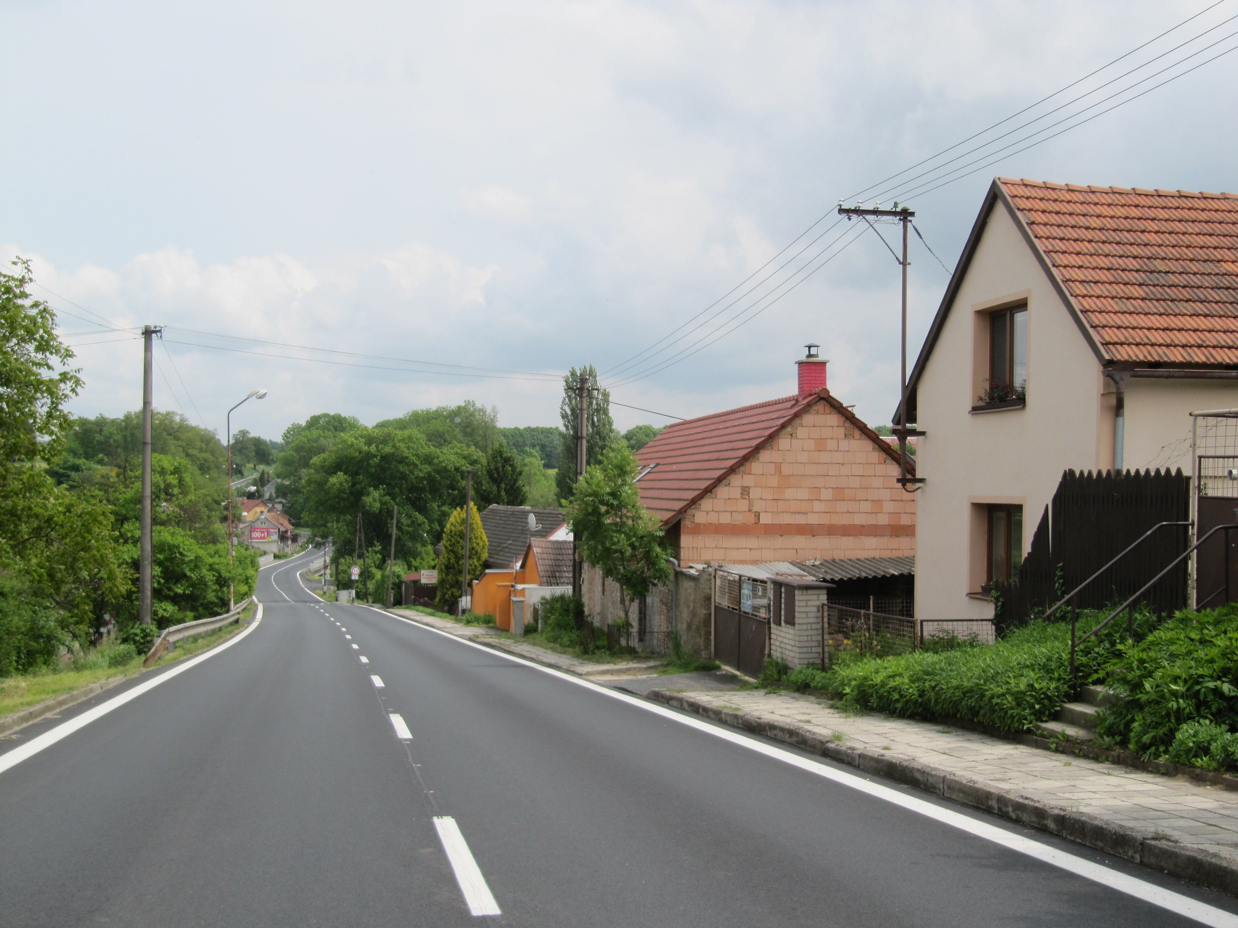 Zásmuky, Kolín District, Czech Republic, part Doubravčany. Road towards Zásmuky.